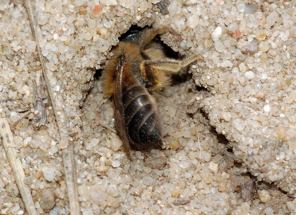 Colletes cunicularius, Schwanheim Dune, Frankfurt/Main, Germany